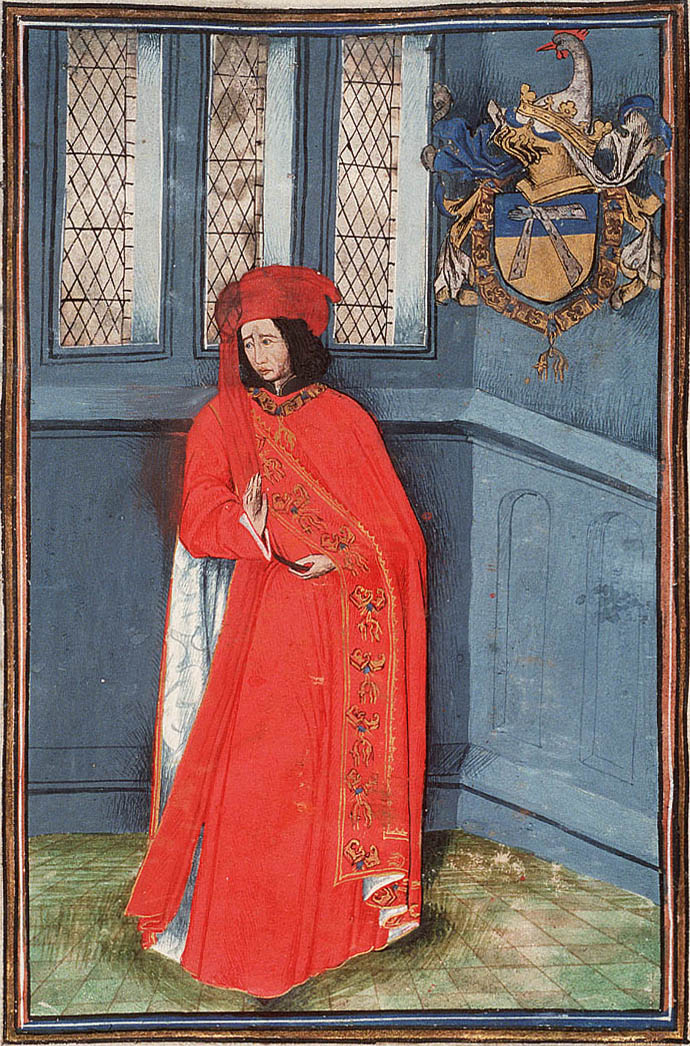 Statuts, Ordonnances et Armorial de l'Ordre de la Toison d'Or (Statutes, Ordonnances and armorial of the Order of the Golden Fleece) Place of origin, date: Southern Netherlands; 1473. Added sections: Southern Netherlands; 1478 or shortly after and 1491 or shortly after Material: Vellum, ff. 86, 249x187 (167x106) mm, 23 lines, littera cursiva (lettre bourguignonne). French. Binding: 18th-century brown leather Decoration: 1 full-page miniature (170x115 mm) with border decoration; 92 miniatures (185/155x120/100 mm); 1 historiated initial (80x90 mm) with border decoration; decorated initials with border decoration (ff., Added section: miniatures ; 4 drawings for miniatures (not finished) Provenance: Presented in 1473 by Gilles Gobet, King of Arms of the Order of the Golden Fleece, to Charles the Bold, Duke of Burgundy and the other Knights during the Chapter of the Order held at Valenciennes; Treasure of the Golden Fleece, Brussls; taken away by the Treasurer C.-F. Humyn (d. 1735) or his daughter C.Ch. de Corte; by legacy to her daughter M.-L. de Corte, wife of Ph.-E. de Poederlé; purchased in 1781 at the Poederlé sale by G.-J- Gérard of Brussels; acquired in 1832 as part of the Gérard collection (no. A 27)